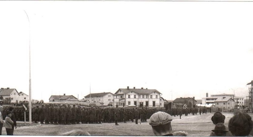 The old marketplace after the second world war. The centerpiece is the big house in the center, the House of Saastamoinen.